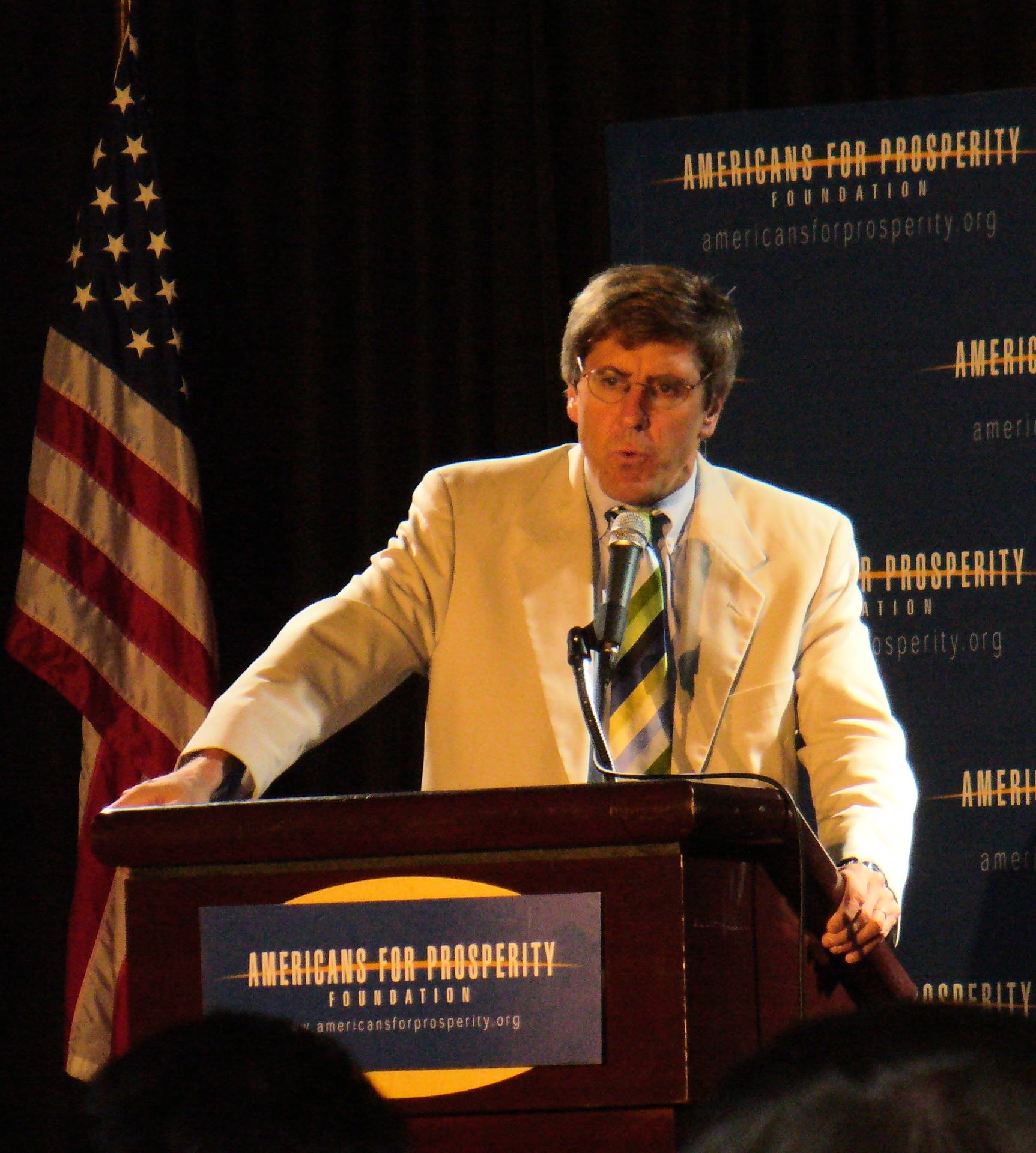 Austin